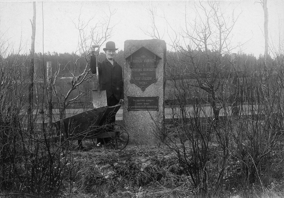 Sweden's first navvy, Per August Skog, June 27, 1828 - August 4, 1914